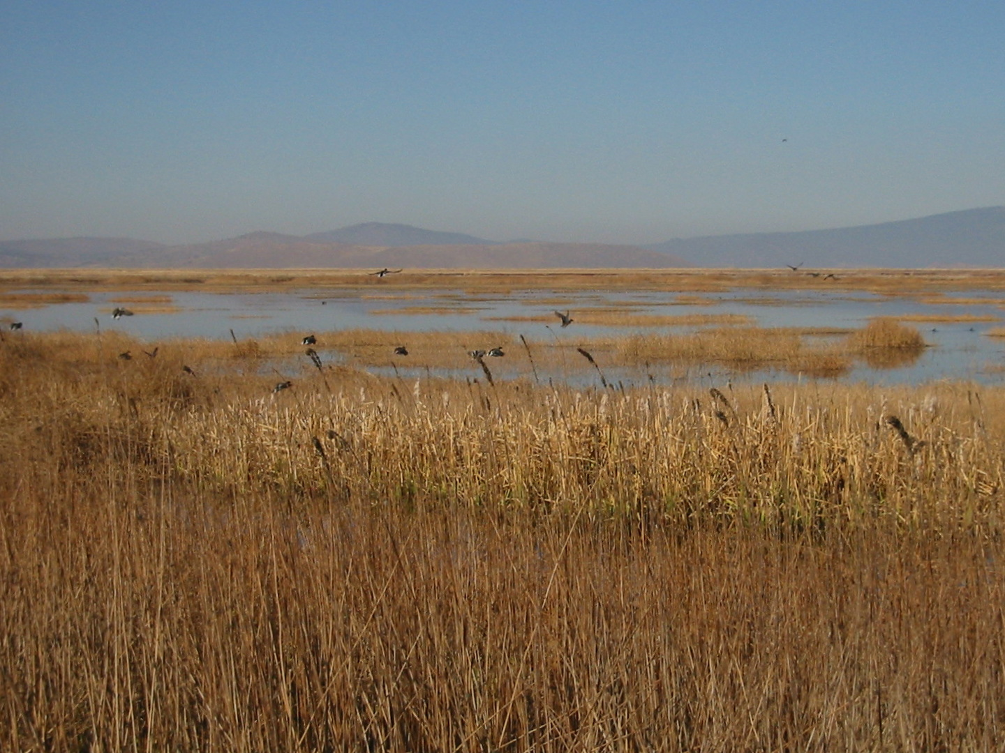 Lower Klamath National Wildlife Refuge American Coot, freshwater marsh